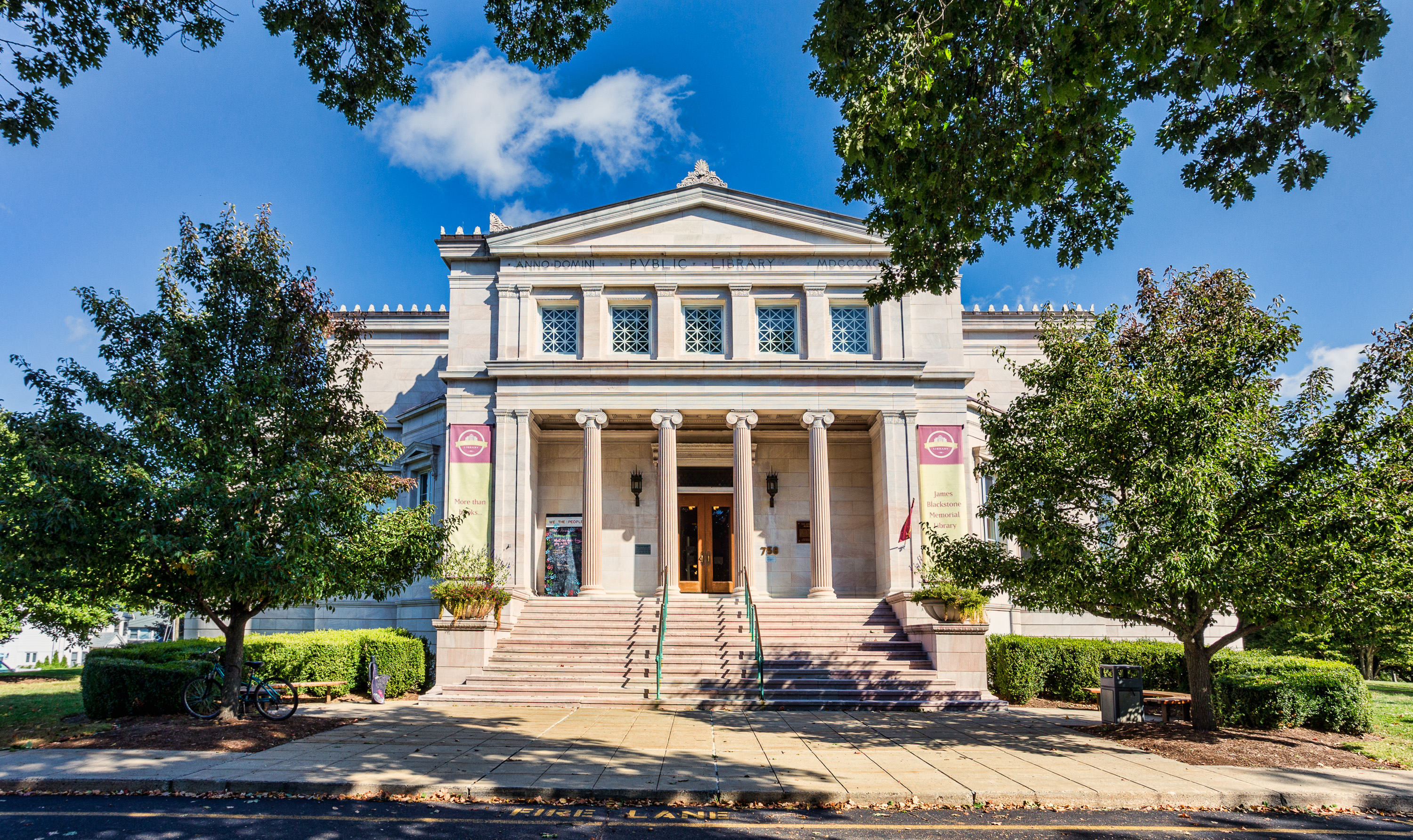 James Blackstone Memorial Library, Branford, Connecticut.